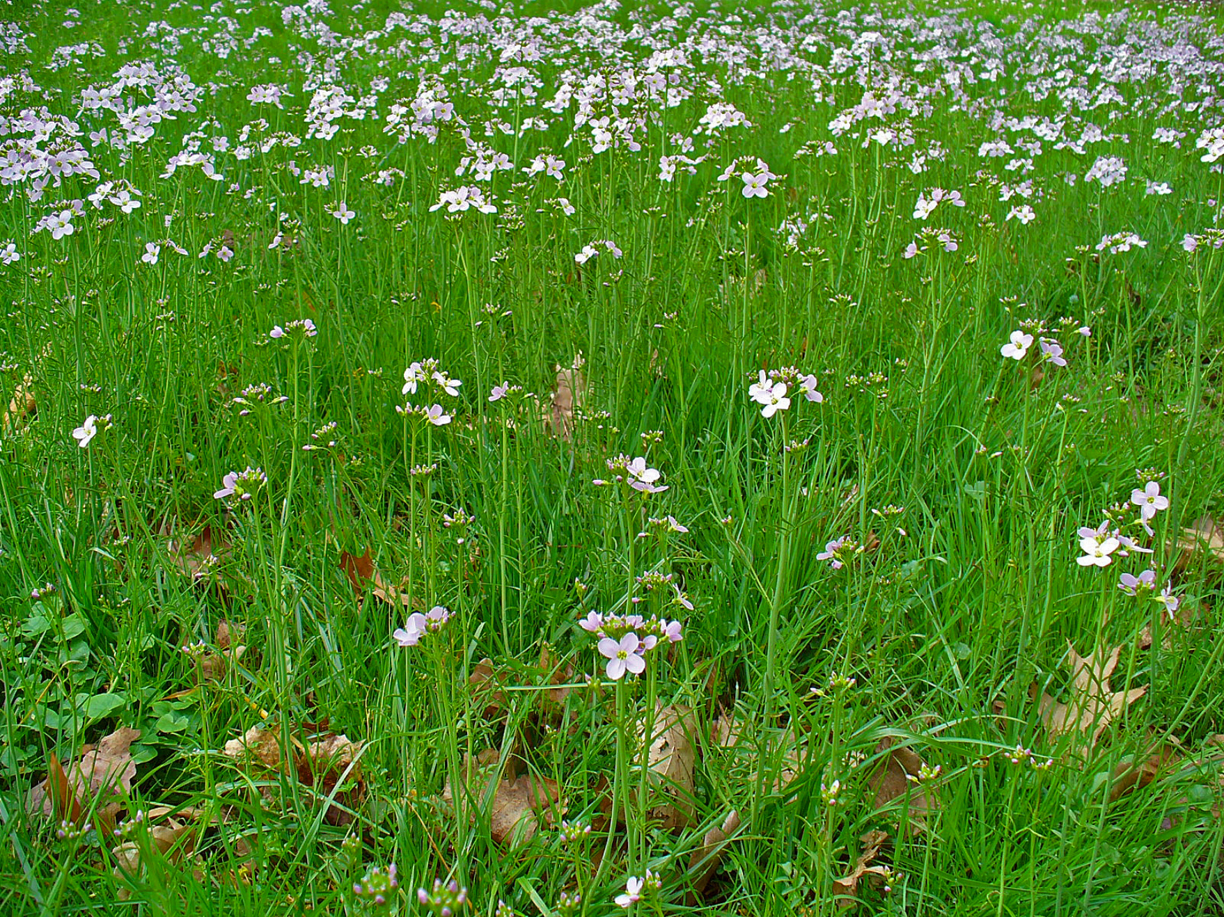 Cardamine pratensis, Brassicaceae, Cuckoo Flower, Lady's Smock, habitus; Karlsruhe, Germany. The fresh aerial parts of the blooming plant are used in homeopathy as remedy: Cardamine pratensis (Carda.)